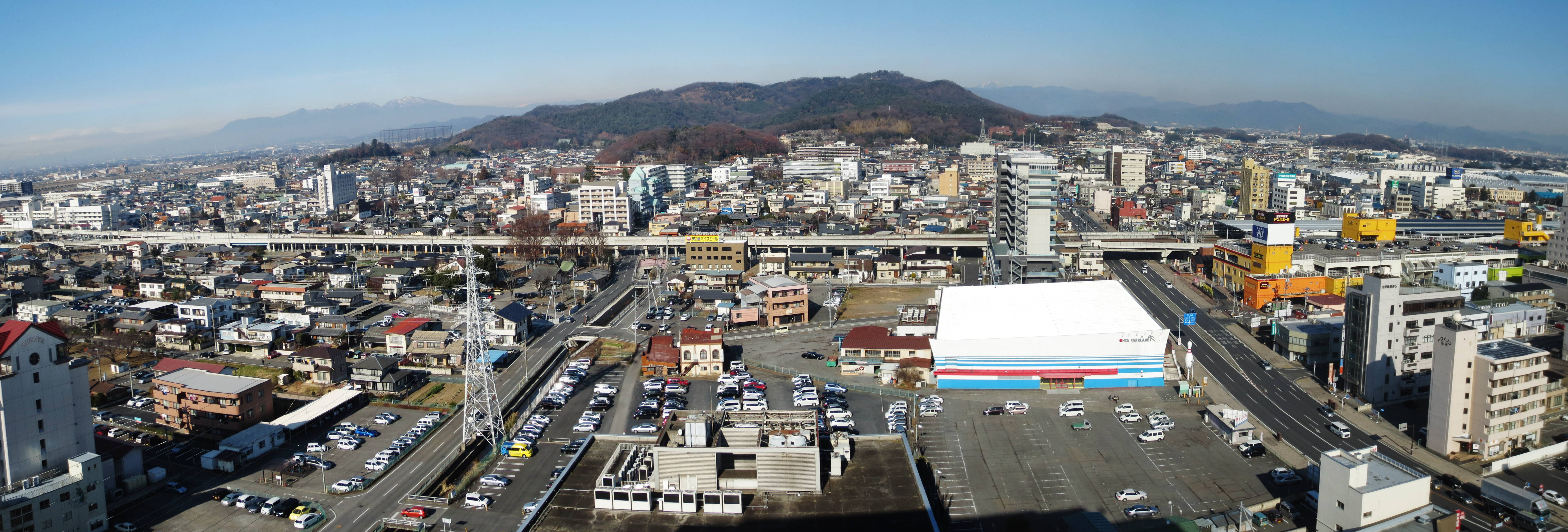 View from Ota city office (north).